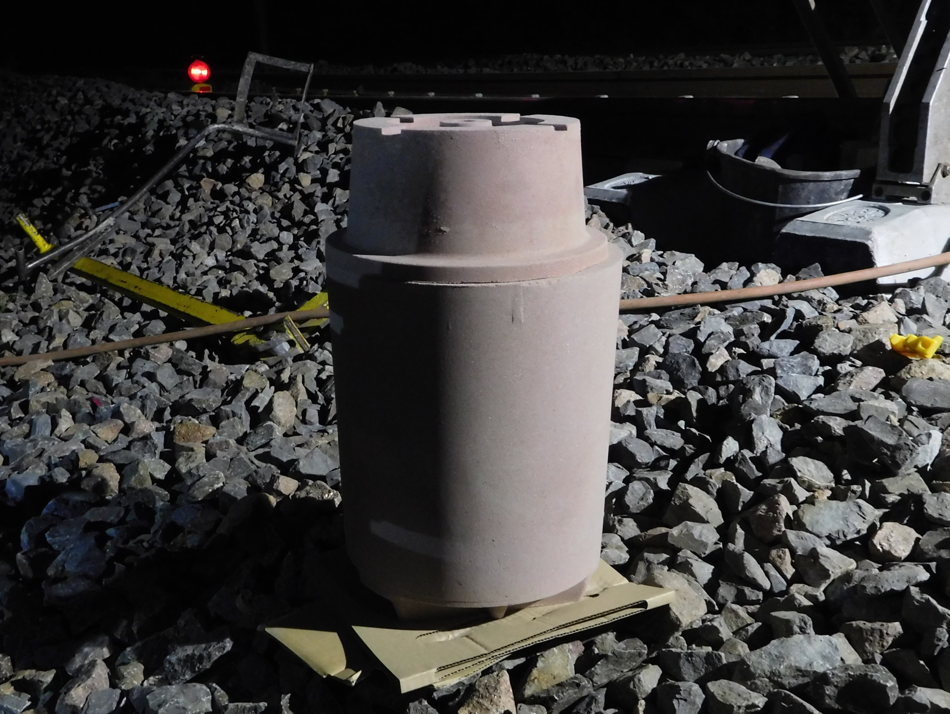 One-shot crucible by Railtech International, Delachaux group.